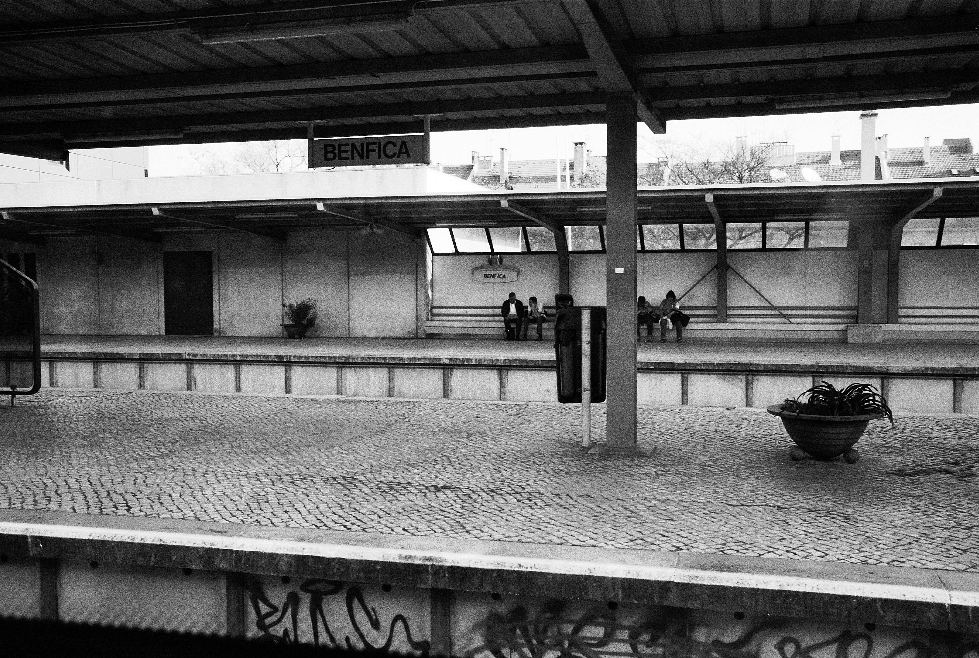 Benfica Station, April 2011